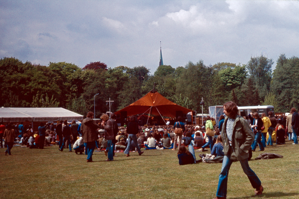 open air, new jazz festival moers (moers festival) 1978